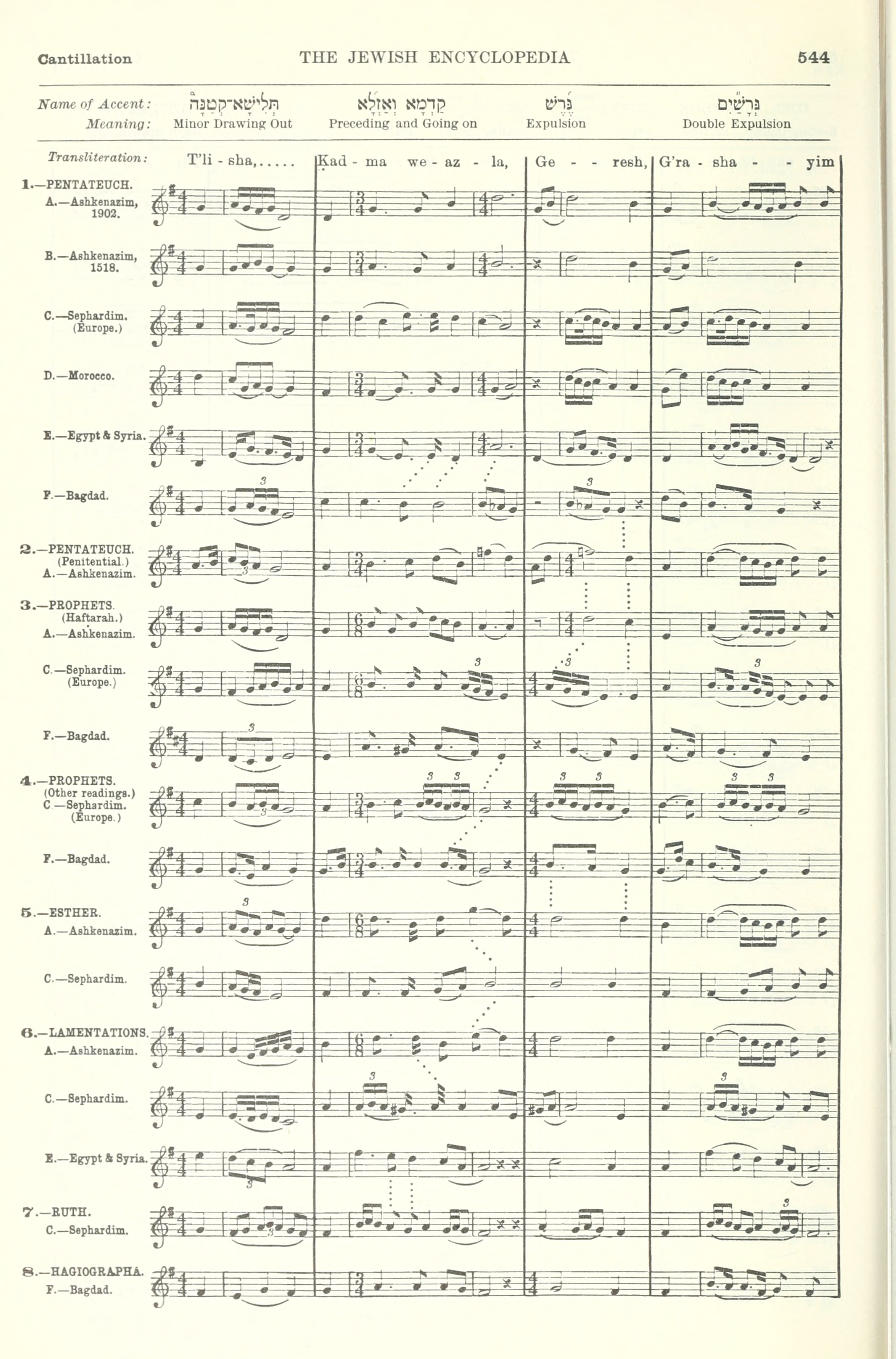 Table with melodies of the cantillation marks telisha, kadma we-azla, geresh, and gershayim for multiple books of the Bible and according to various traditions. This scan has been taken out of Francis L. Cohen: Cantillation. Out of: Isidore Singer (ed.): The Jewish Encyclopedia, Volume III, KTAV Publishing House, New York 1901–1906, p. 544.